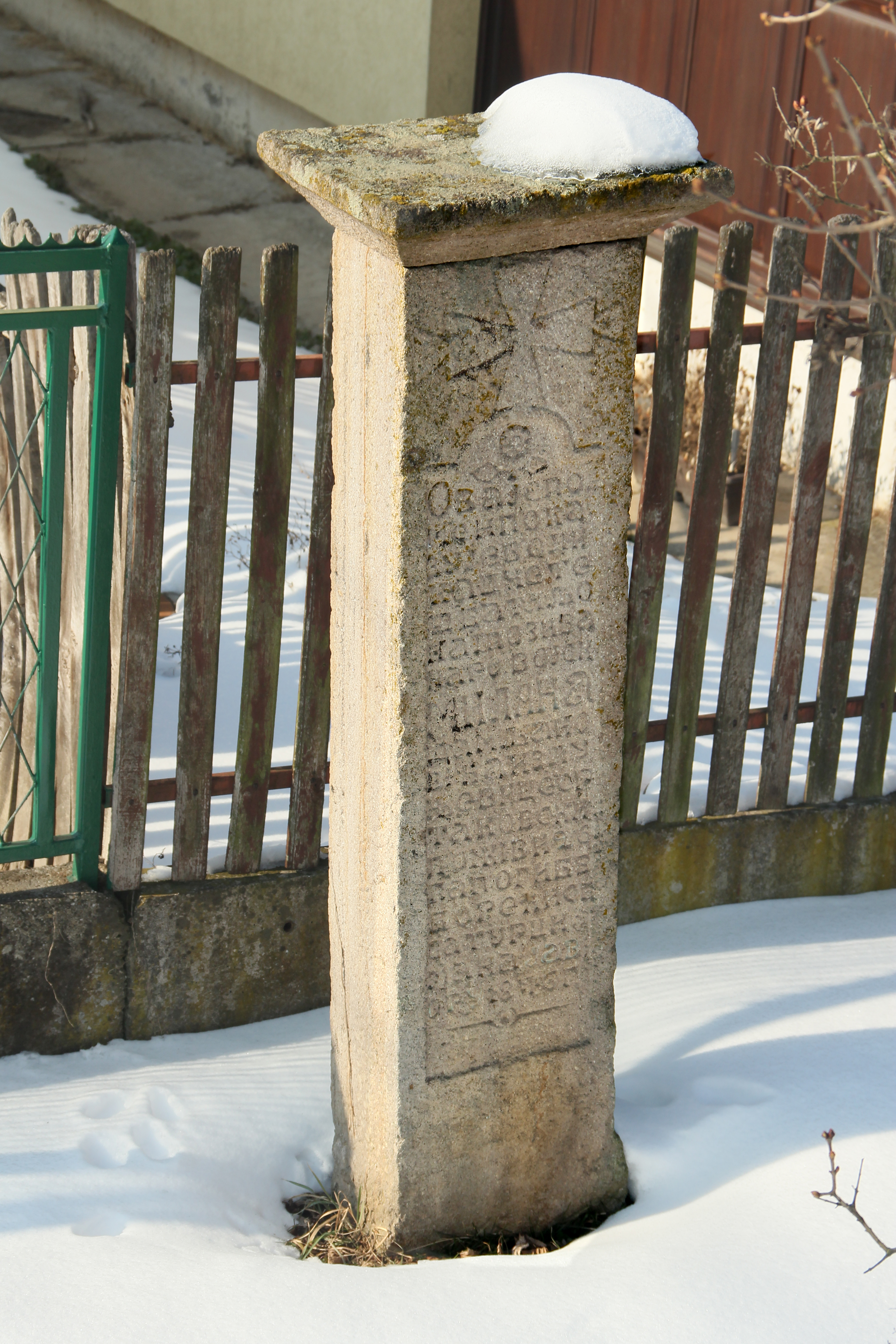 Roadside tombstone erected in memory of Milan Damljanovc, a soldier that was killed in the Serbo-Turkish War (1876–78). It is located in the village Brdjani (municipality of Gornji Milanovac), Serbia.